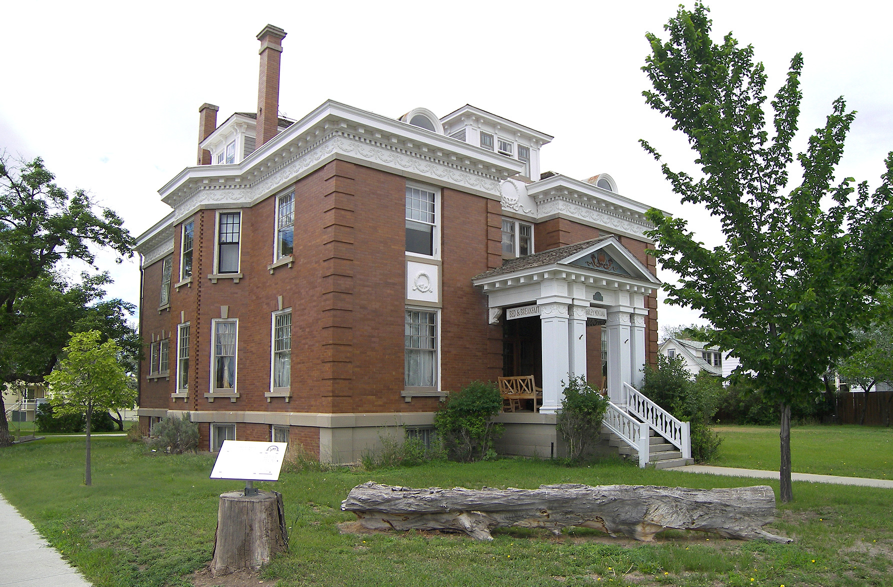 The Charles Krug House located in Glendive, Montana, United States.